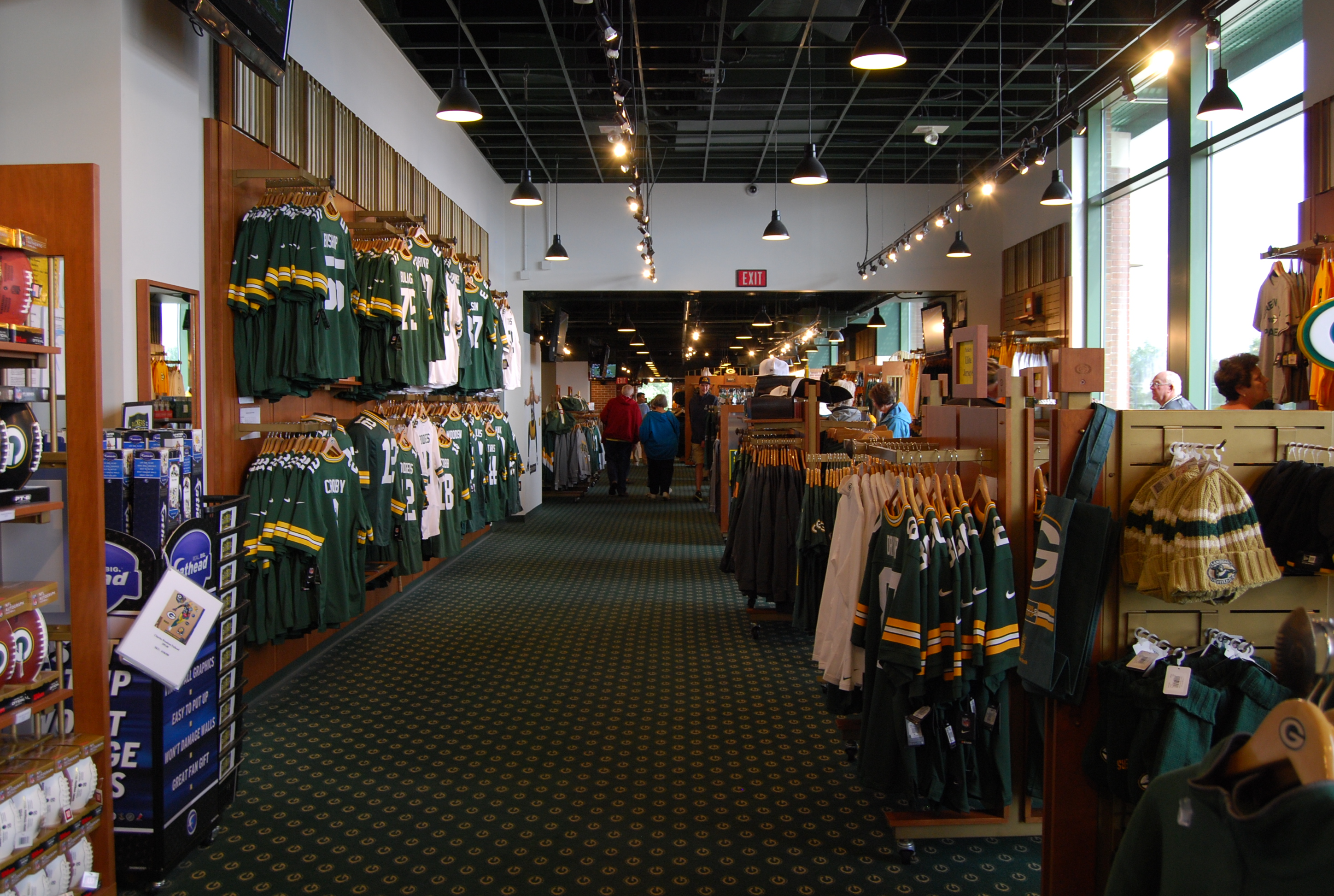 Packers Pro Shop in 2012